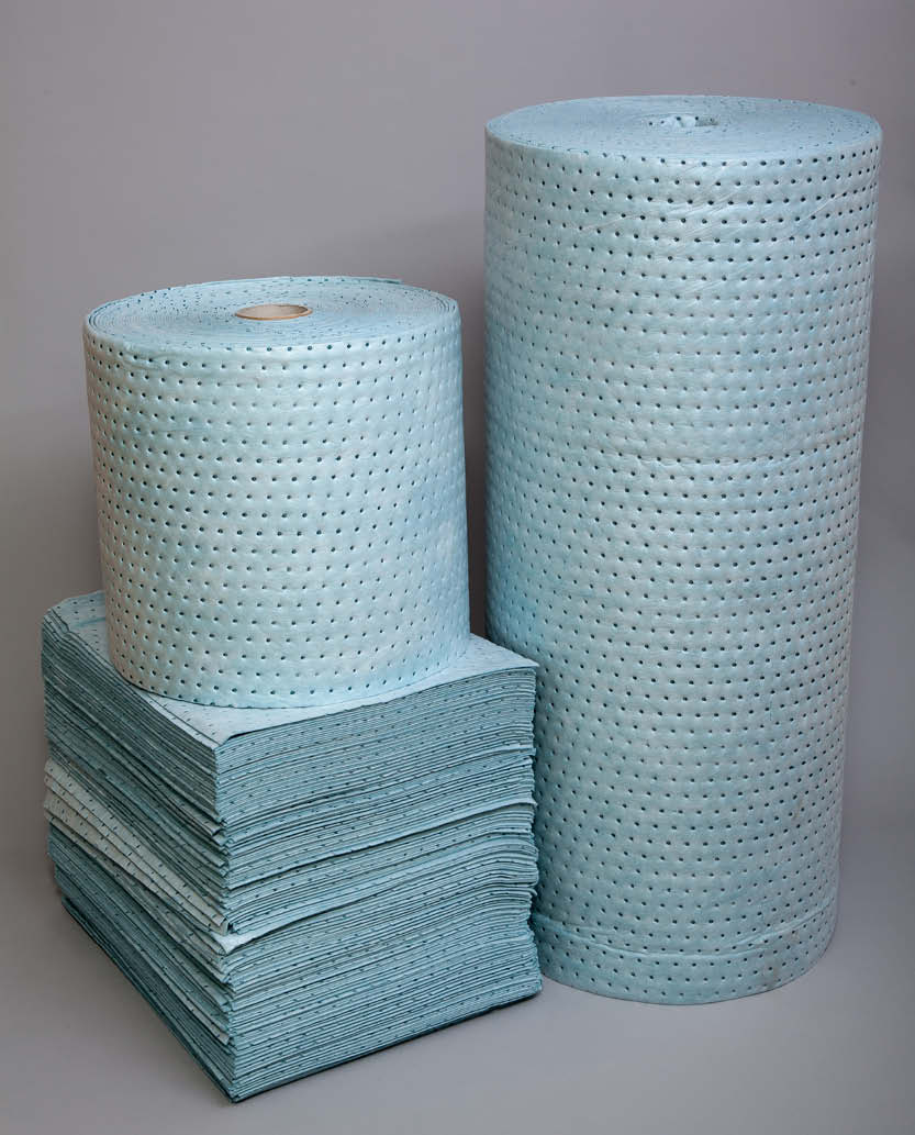 absorbent oil only, spill management